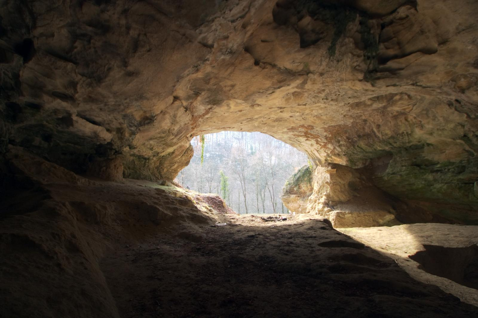 Vindija cave near Varazdin in Croatia.